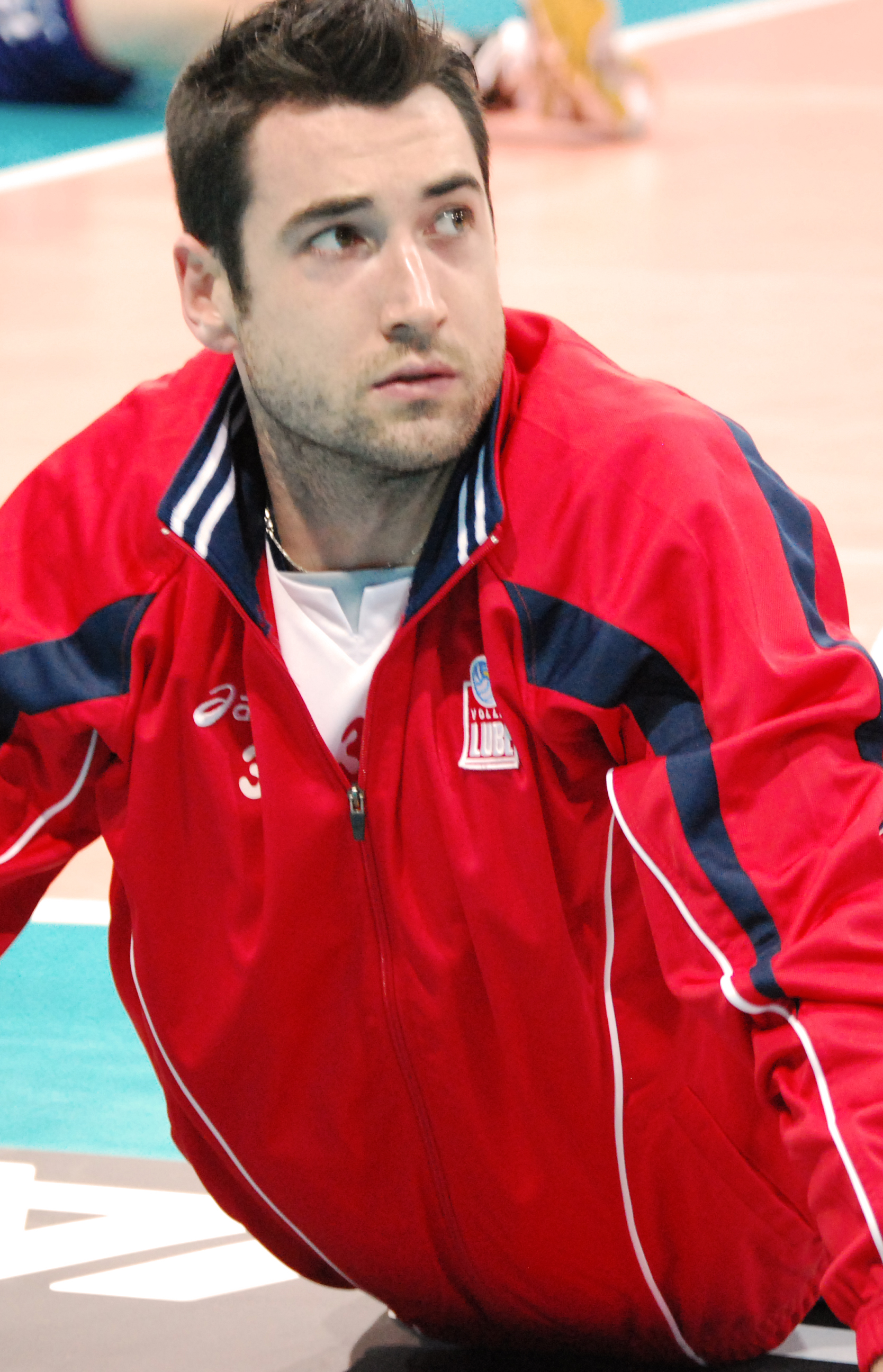 I took this photo during a volleyball match in Piacenza